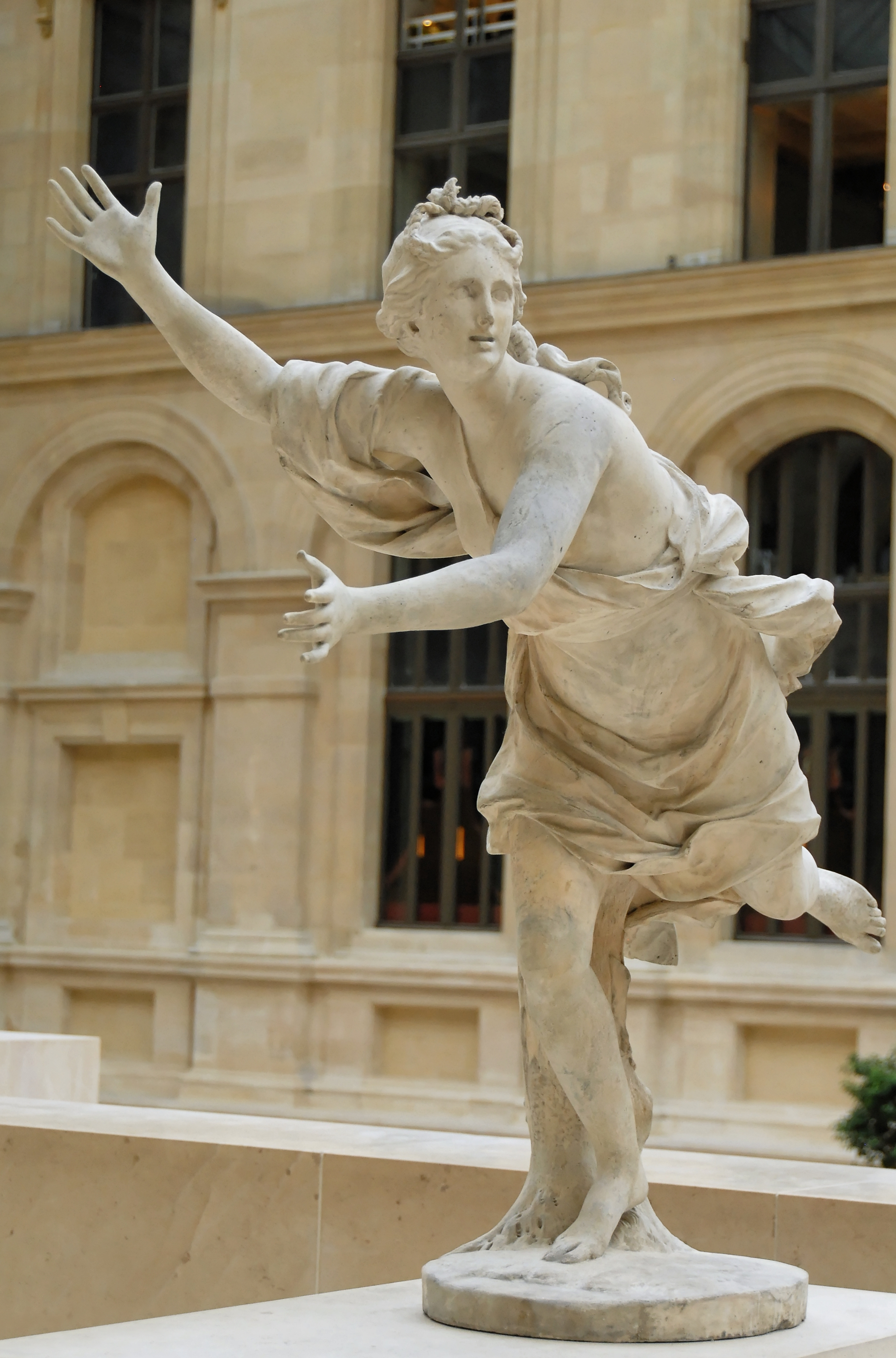 Daphne chased by Apollo. Marble, ca. 1713-1714.